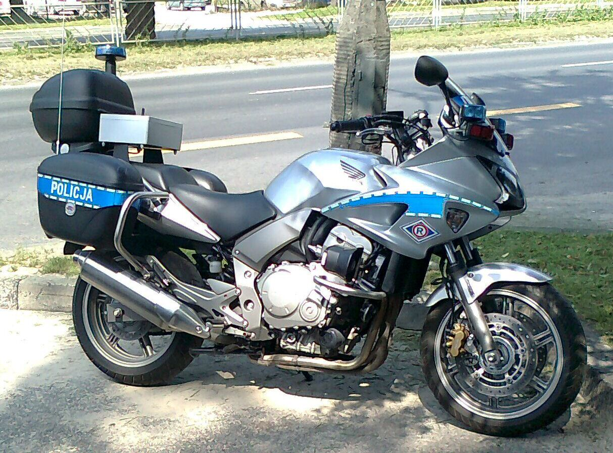 Polish Police Honda CBF1000